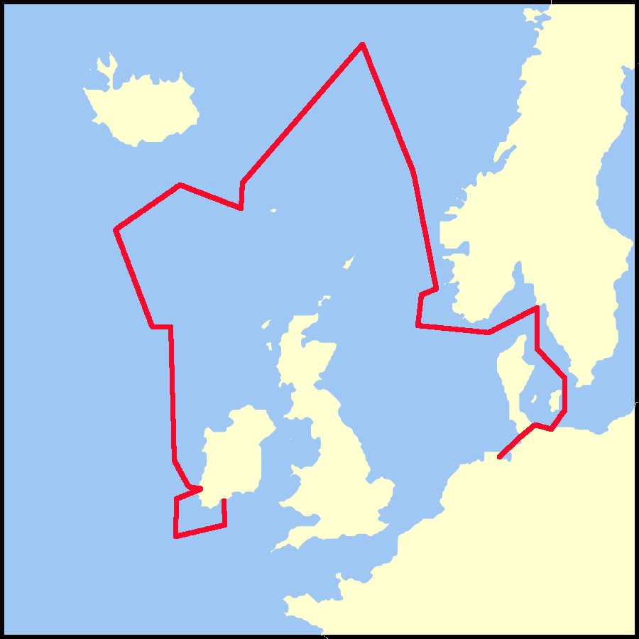 Approximate route of ship Libau (ex Castro, also "Aud") from Germany to Ireland, 1916 (Wilhelmshaven–Kiel Canal–Lübeck/Warnemünde–Gothenburg–Bremanger–Polar circle–Rockall–Tralee Bay–Queenstown)